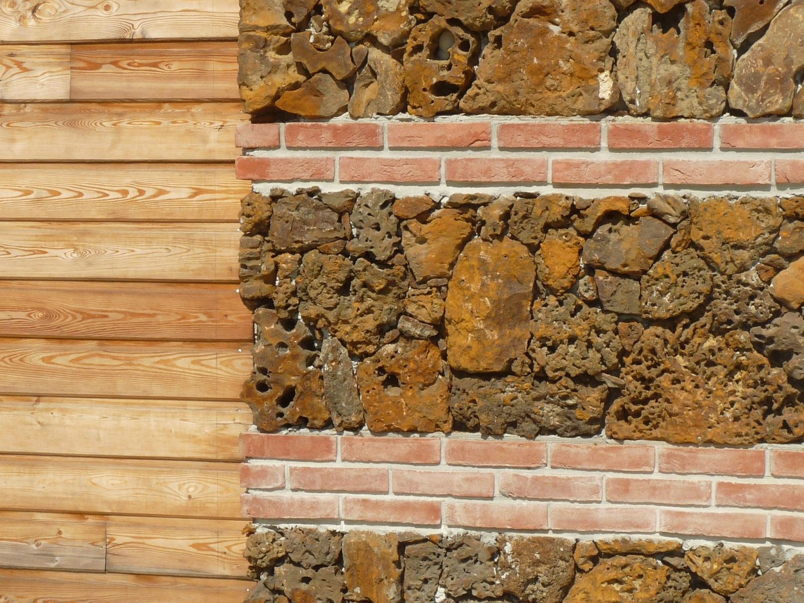 Wall of a new building at Aureilhan (40), SW France. Made of "Alios" stone, bricks, pine timber.